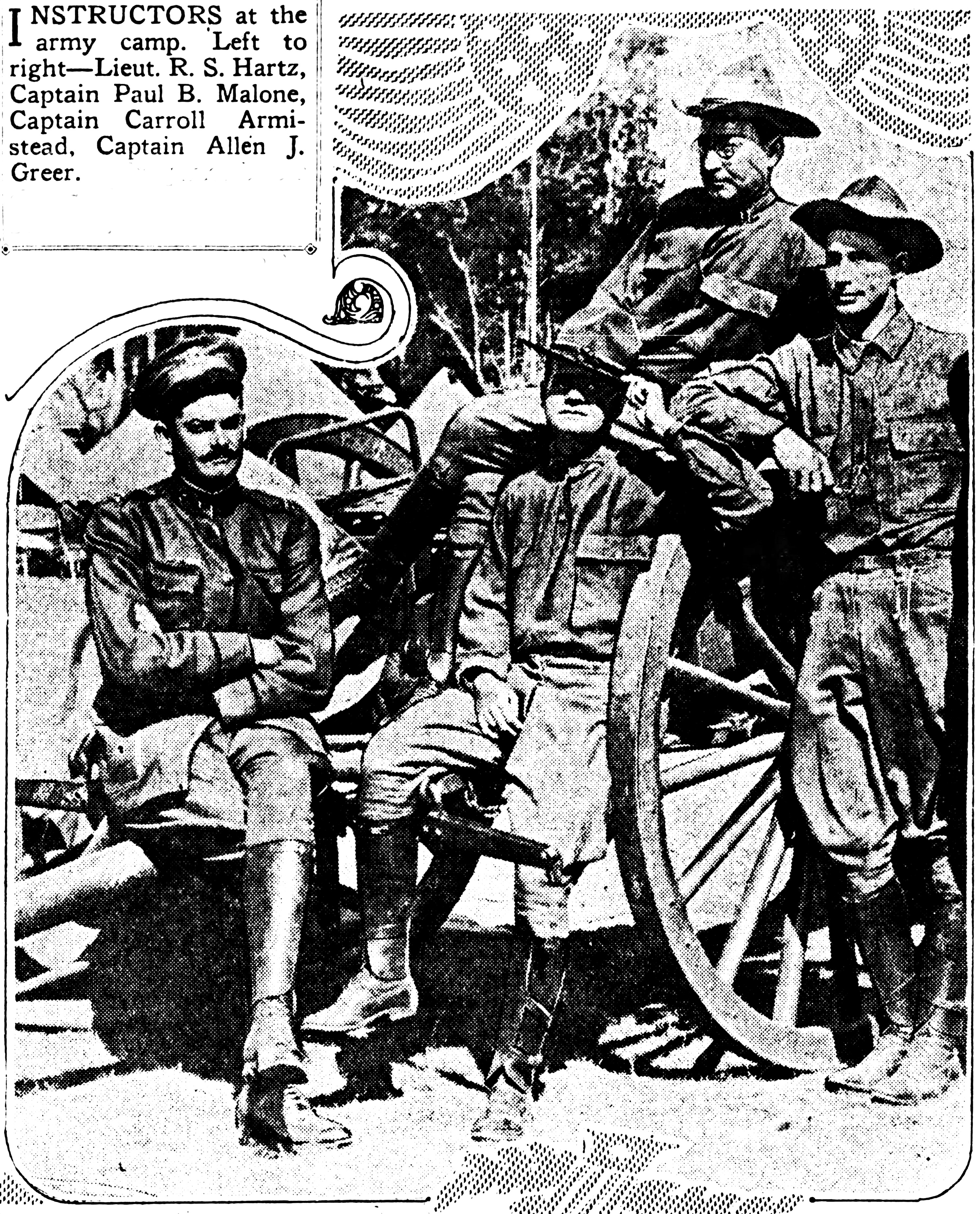 Retouched and cropped photograph from San Francisco Examiner of August 20, 1915 showing instructors at a new U.S. Army training camp at the San Francisco Presidio. Left to right, they are Lt. R.S. Hartz, Capt. Paul B. Malone, Capt. Carroll Armistead and Capt. Allen J. Greer.